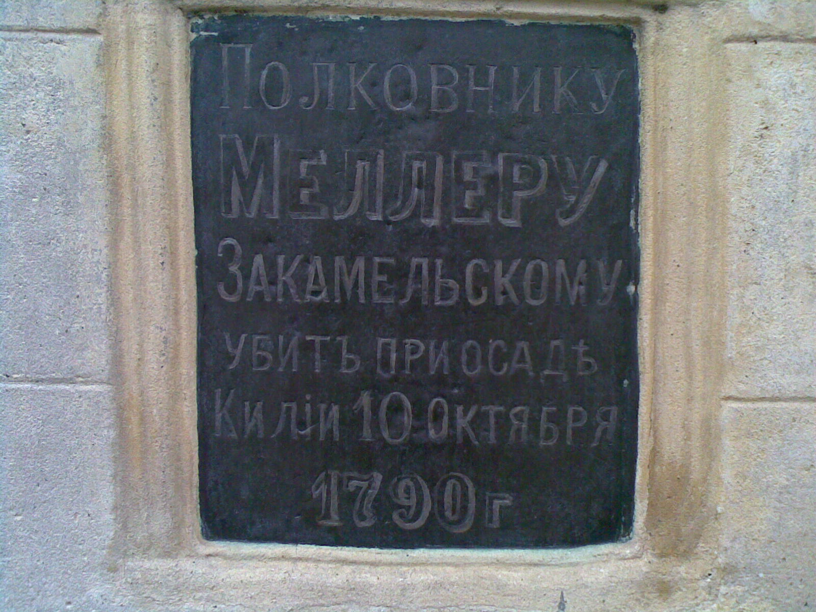 Potemkin, Grigori Alexandrovich